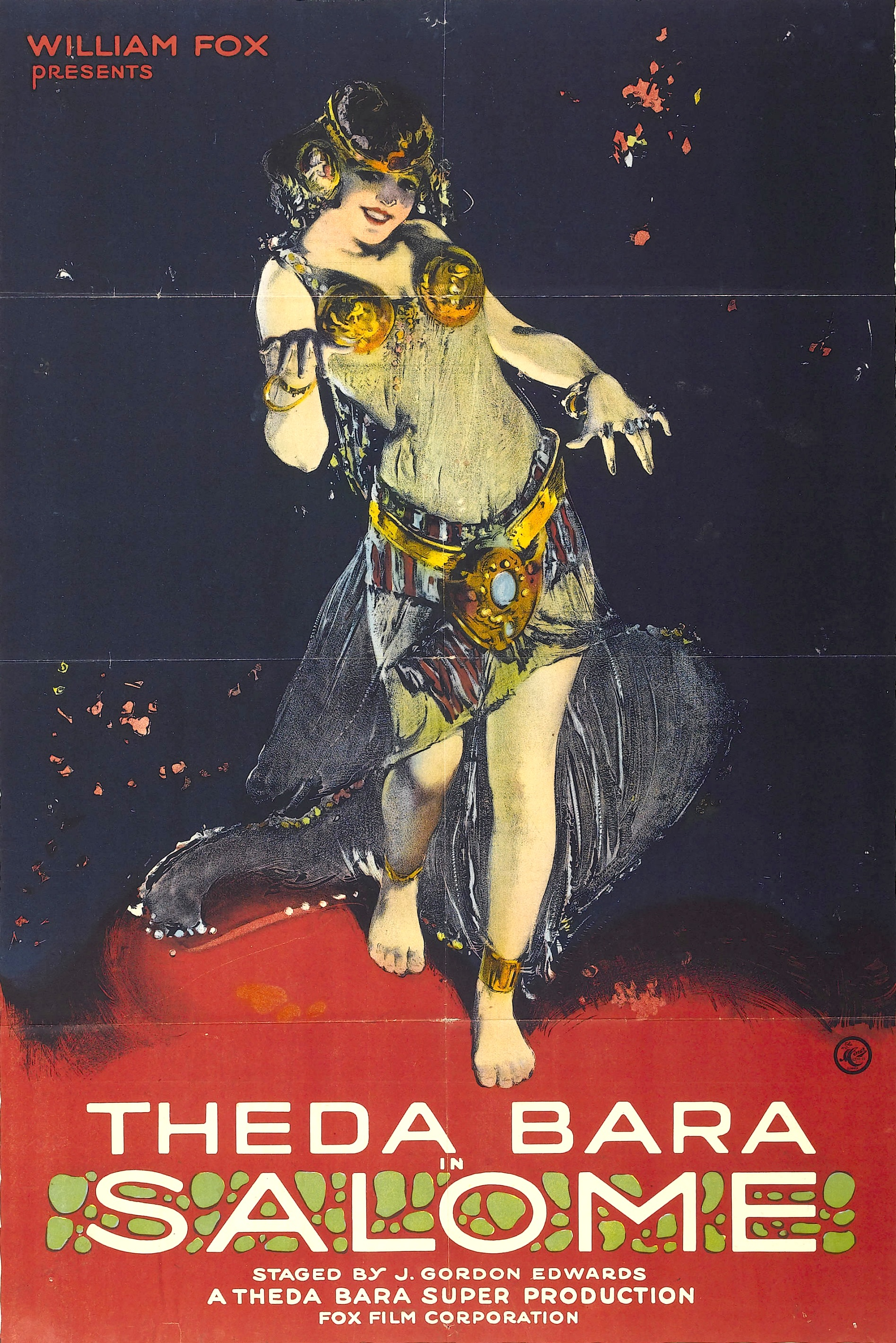 Poster of "Salome" (1918), lost movie with Theda Bara